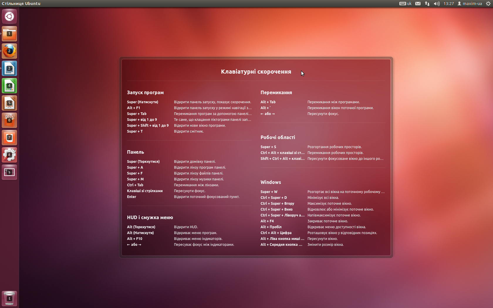 Keyboard shortcuts of Unity in Ubuntu 12.04 LTS - shortcut overlay hint appears by press and hold the Super key. In Ukrainian